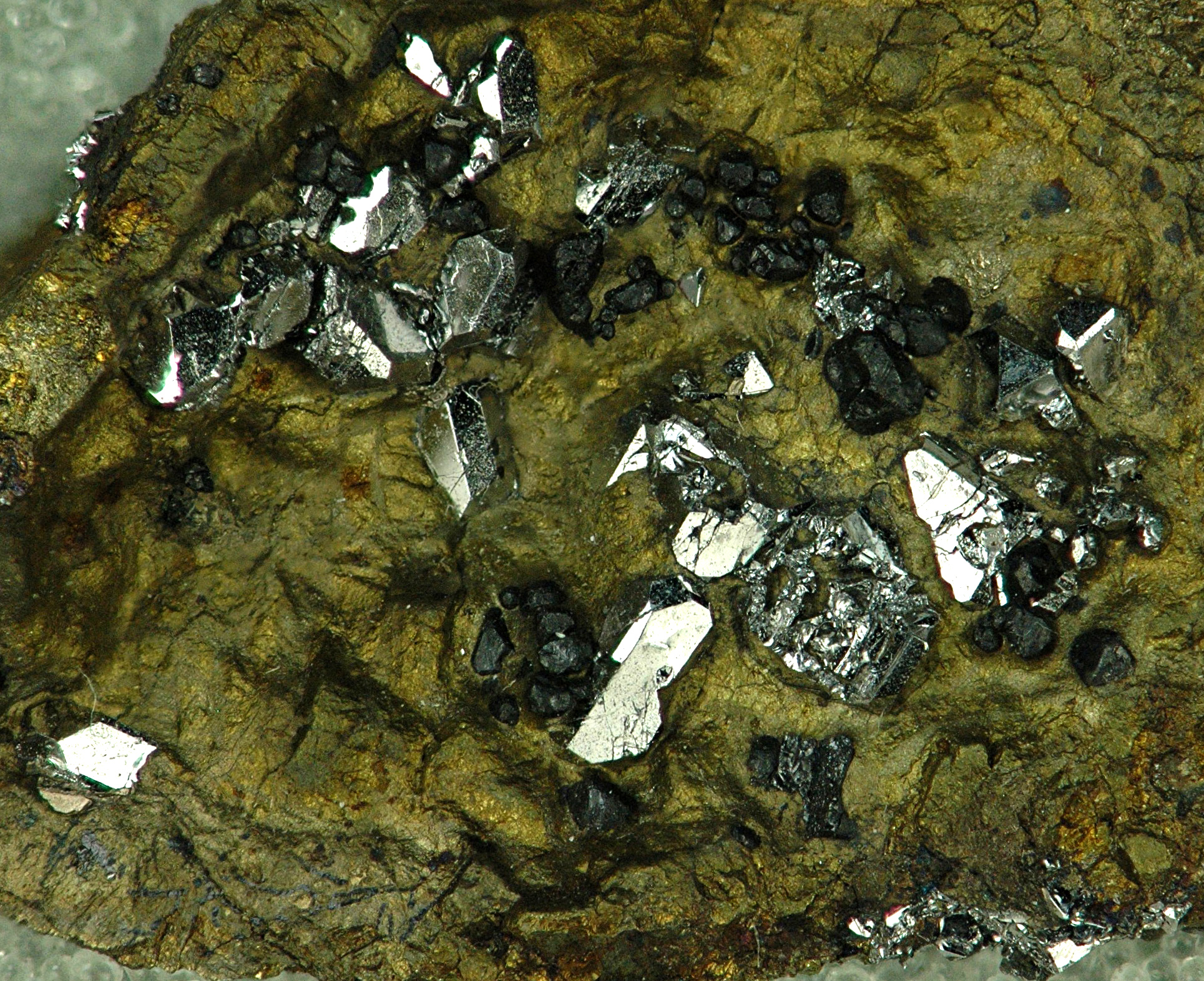 Sperrylite (silver-colored) in platinum-copper ore (field of view 2.2 cm across) with chalcopyrite (dark brassy gold - CuFeS2) & magnetite (black - Fe3O4). Geology & Age: massive Fe-Cu sulfide hosted in gabbrodolerite, lower series of differentiated layered igneous intrusion associated with hotspot-generated Siberian Traps Flood Basalts, Permian-Triassic boundary time, 251 my. Locality: apparently from the Oktyabersky Mine, ~12 km NW of Talnakh, Norilsk Mining District, Putoran Plateau, Krasnoyarsk Territory, northern Siberia, Russia. Sperrylite is a very rare platinum arsenide mineral (PtAs2). Very few localities on Earth have been reported to have sperrylite. The two classic localities for this mineral are Sudbury, Ontario, Canada and the Norilsk Mining District in northern Siberia. Sperrylite has a metallic luster, a bright silvery color, a dark gray to black streak, is fairly hard (H = 6 to 7), and is quite heavy for its size. It forms crystals in the isometric system, resulting in octahedrons and octahedrons truncated by cubic forms.